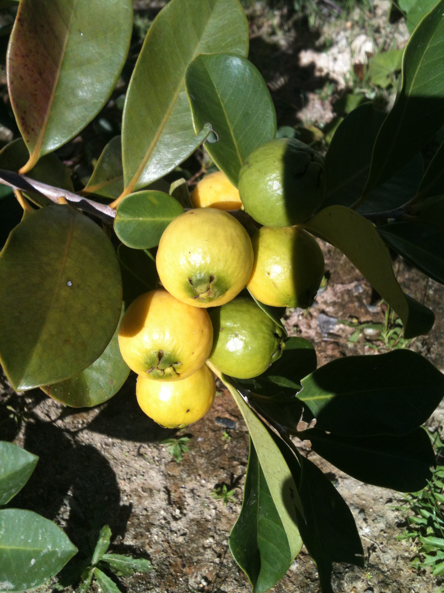 Araçá do Campo (Psidium guineense Sw.) fruit.